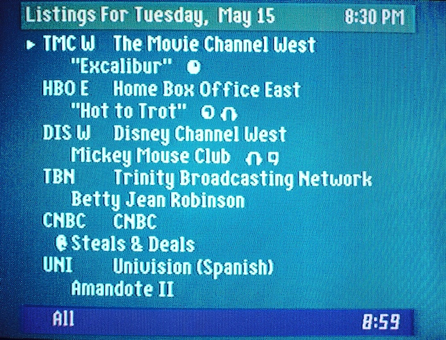 Screen shot of 2nd generation SuperGuide system